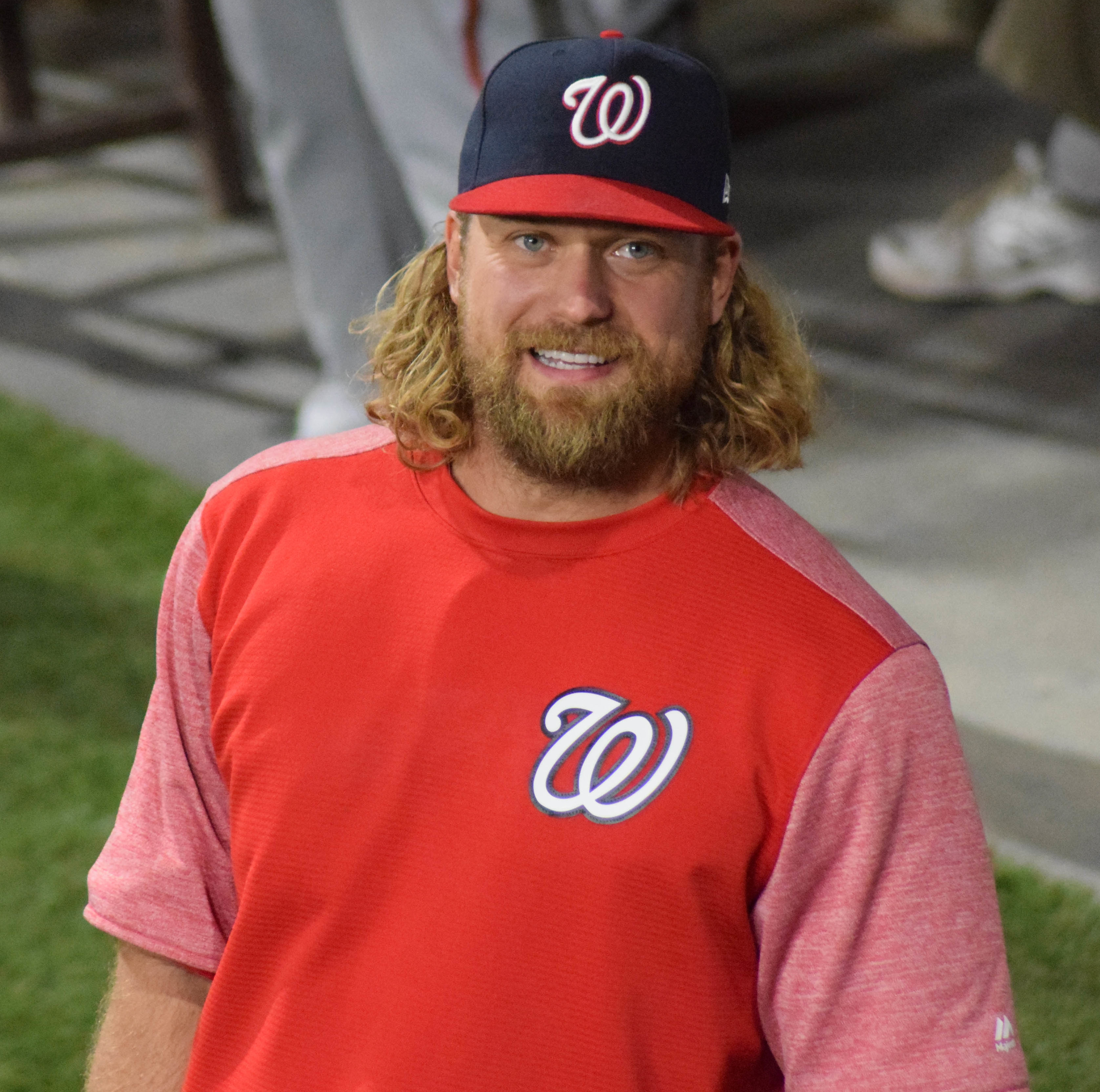 Washington Nationals pitcher Trevor Rosenthal in the bullpen during a 2019 game at Citizens Bank Park in Philadelphia